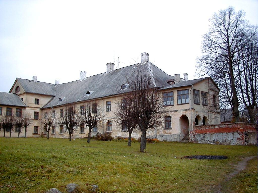 Ezere Manor